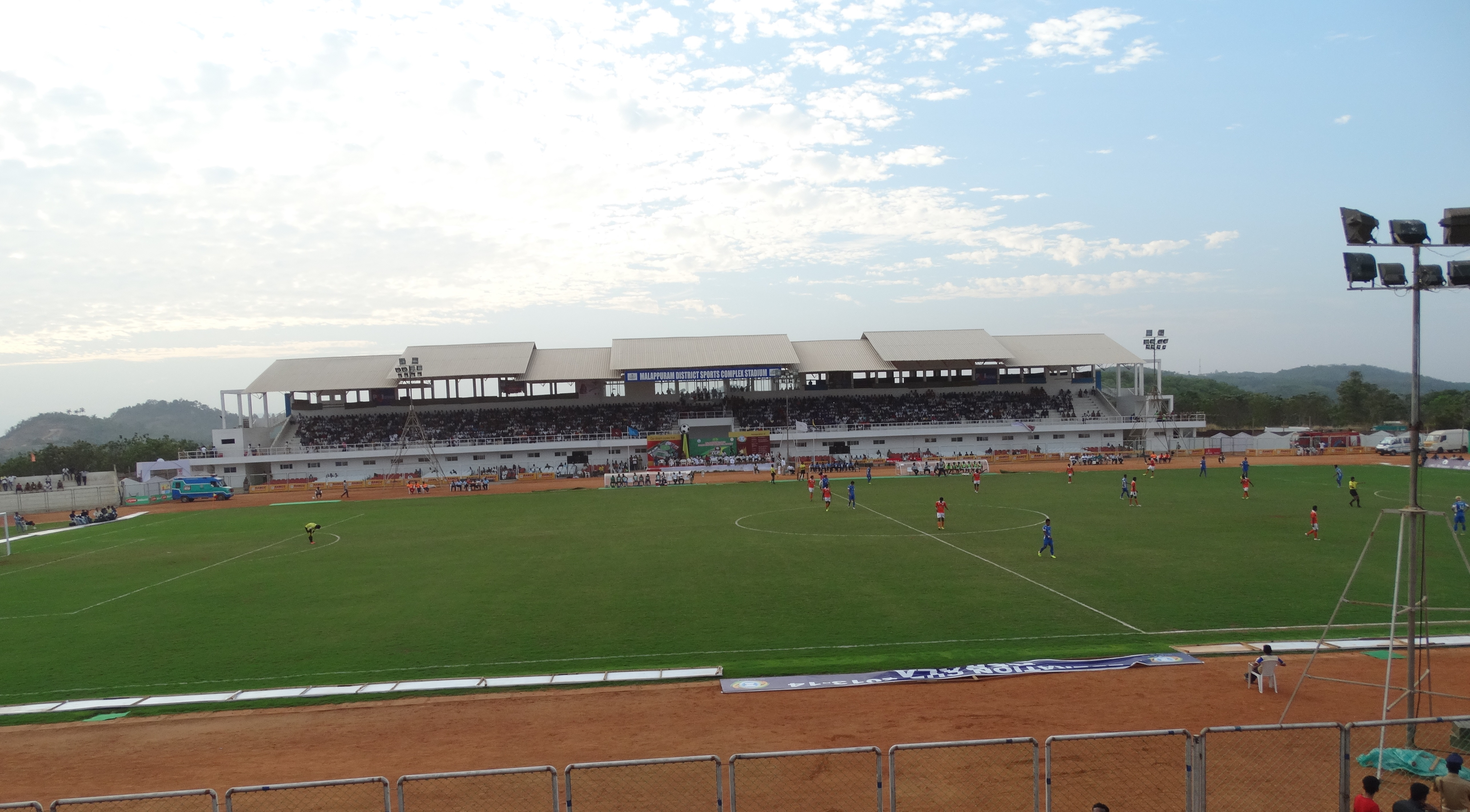 Malappuram District Sports Complex Stadium